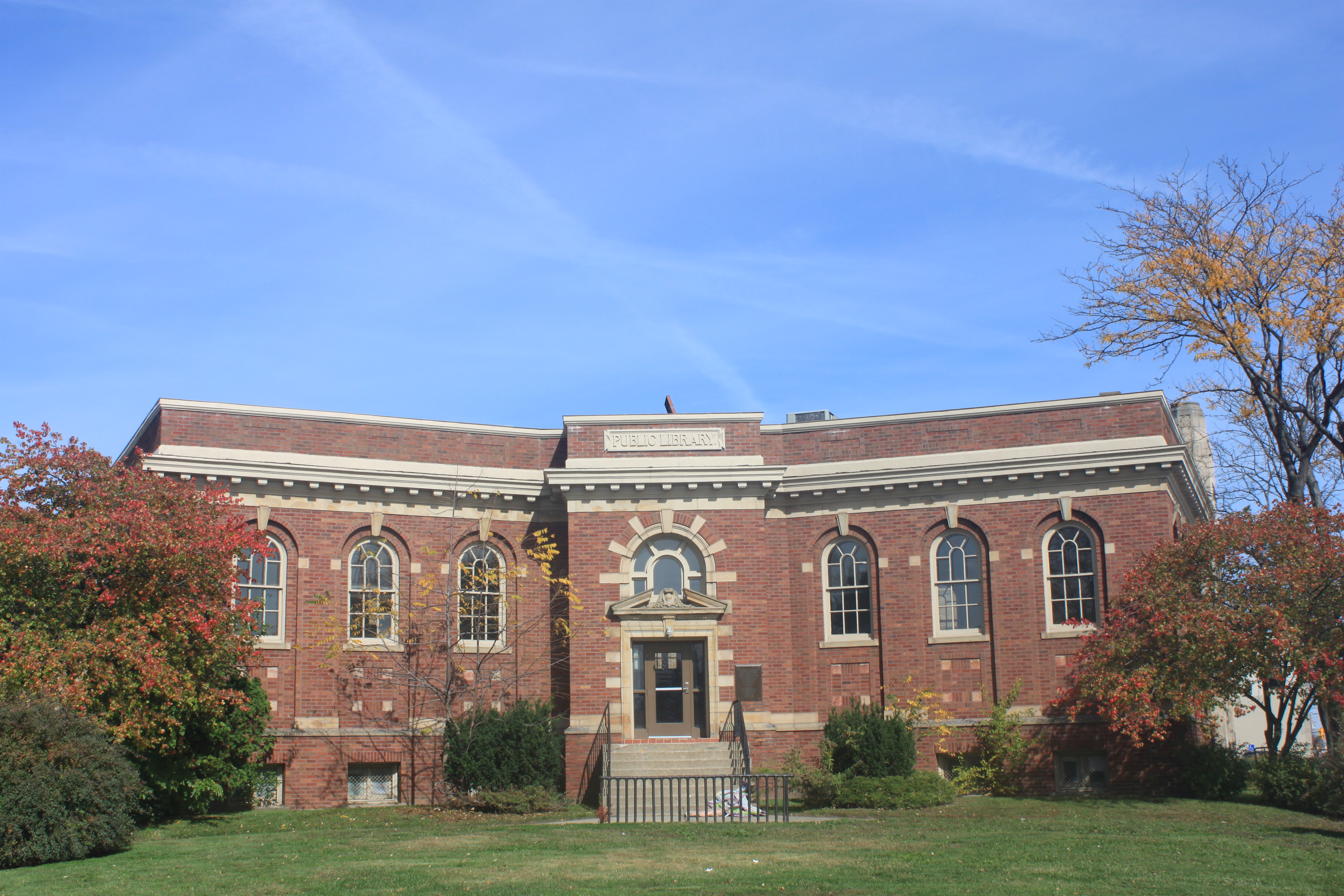 South Branch Carnegie Library, 1638 Broadway, Toledo, Ohio